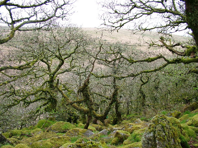 Wistman's Wood. Looking west into the wood from the footpath. This wood is one of the surviving areas of ancient woodland on Dartmoor